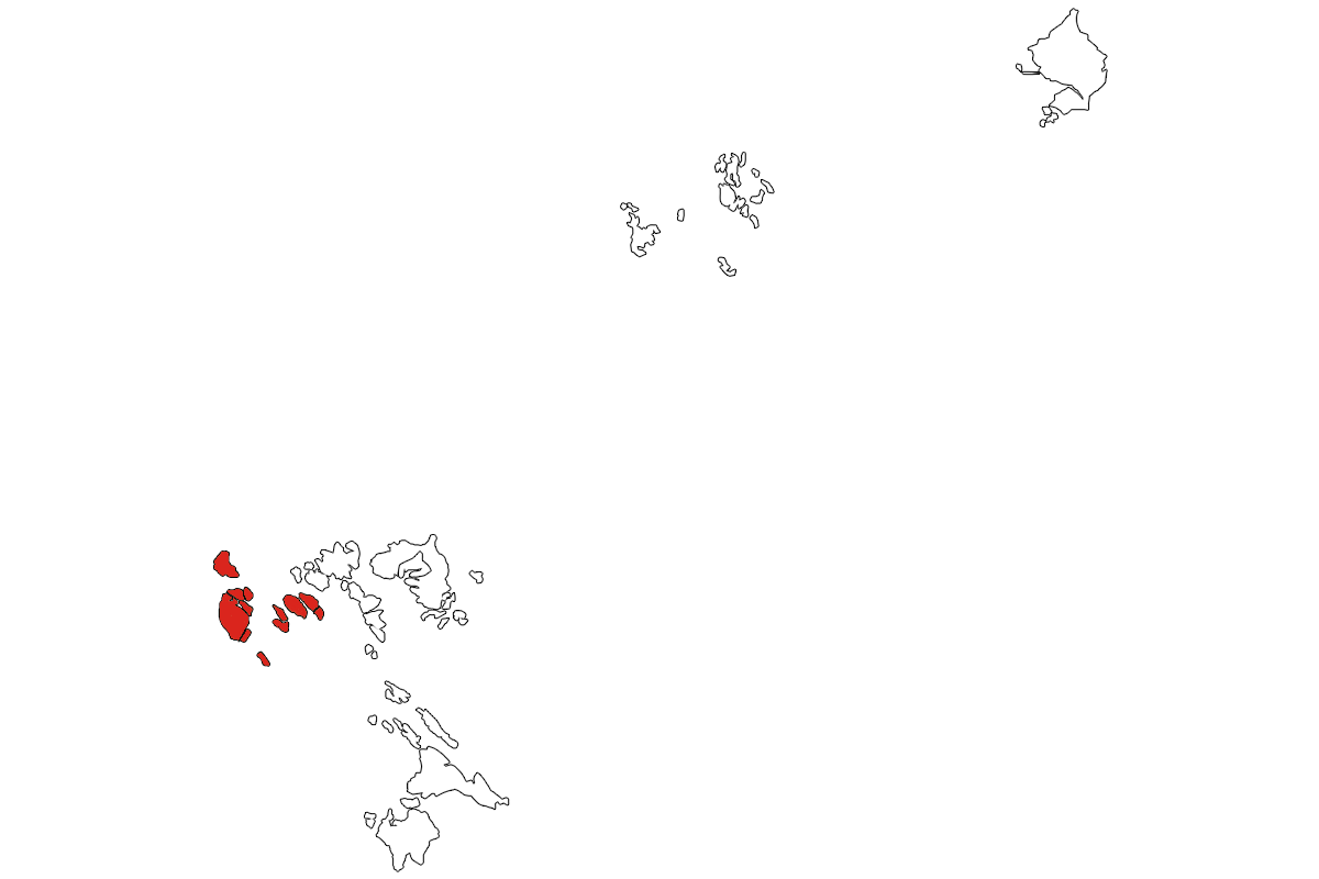 Locator of Karimun Regency within Riau Islands Province